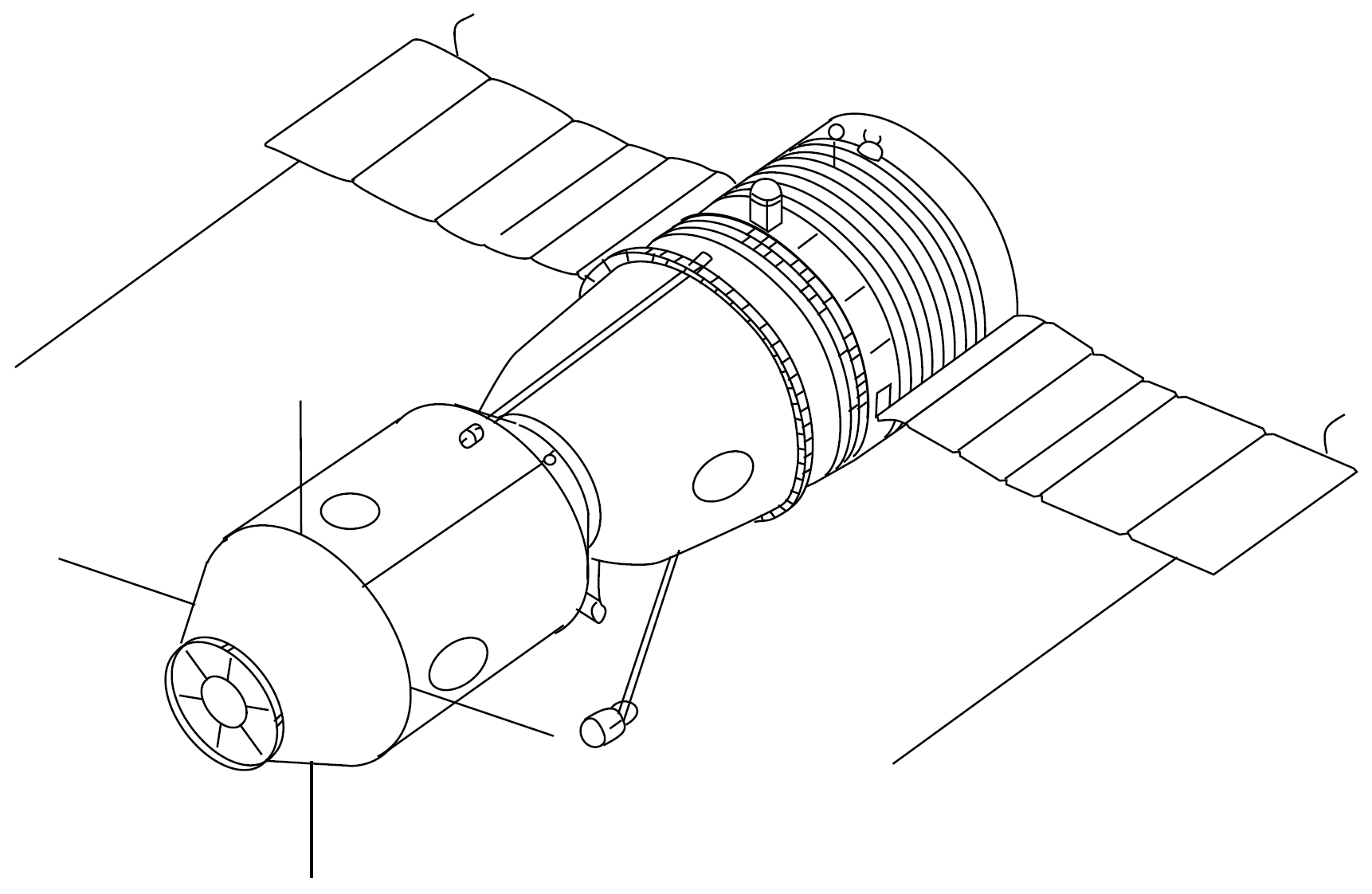 Soyuz-A manned spacecraft concept (1963). It was to have been part of the Soyuz A-B-C circumlunar complex.